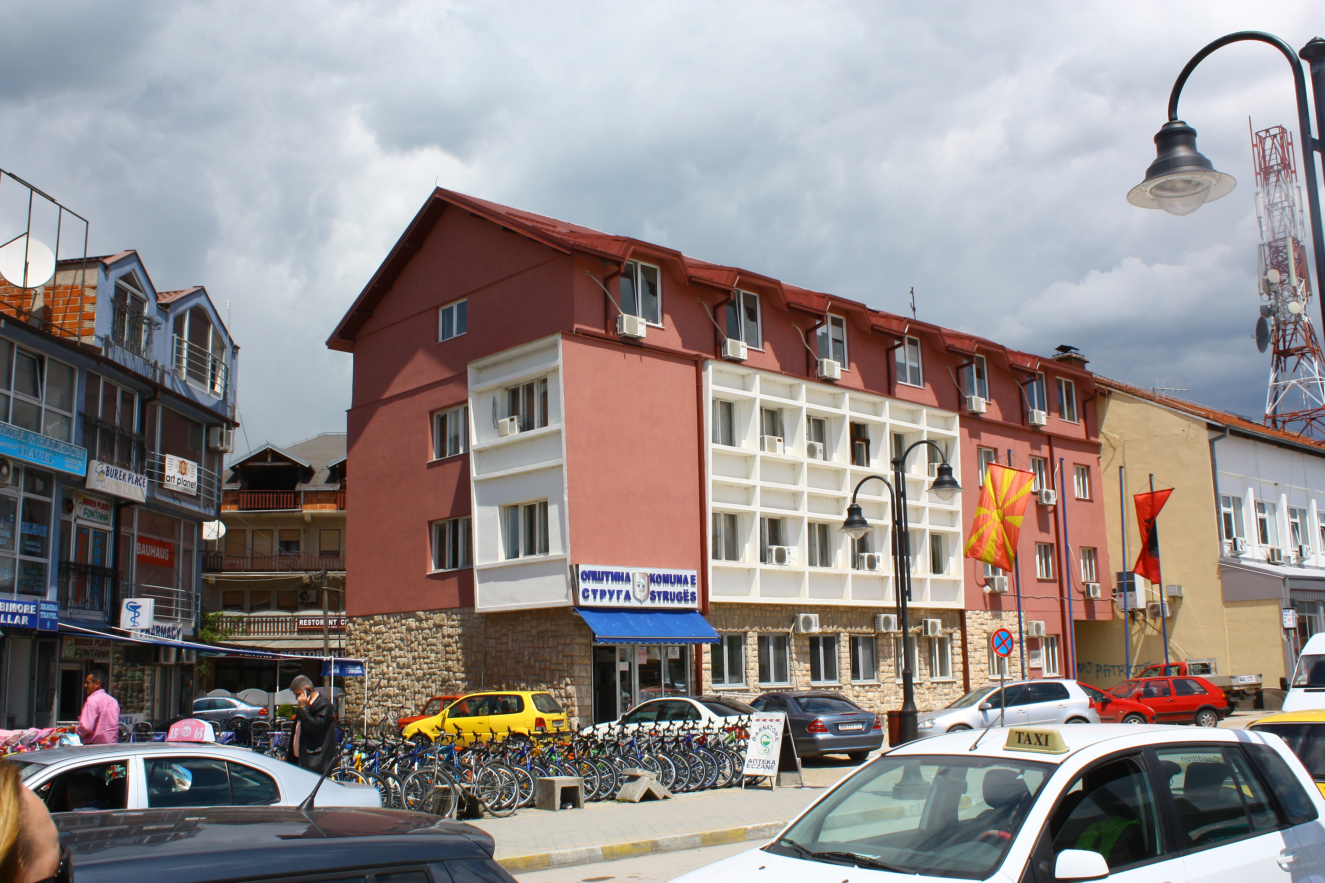 Struga, Macedonia